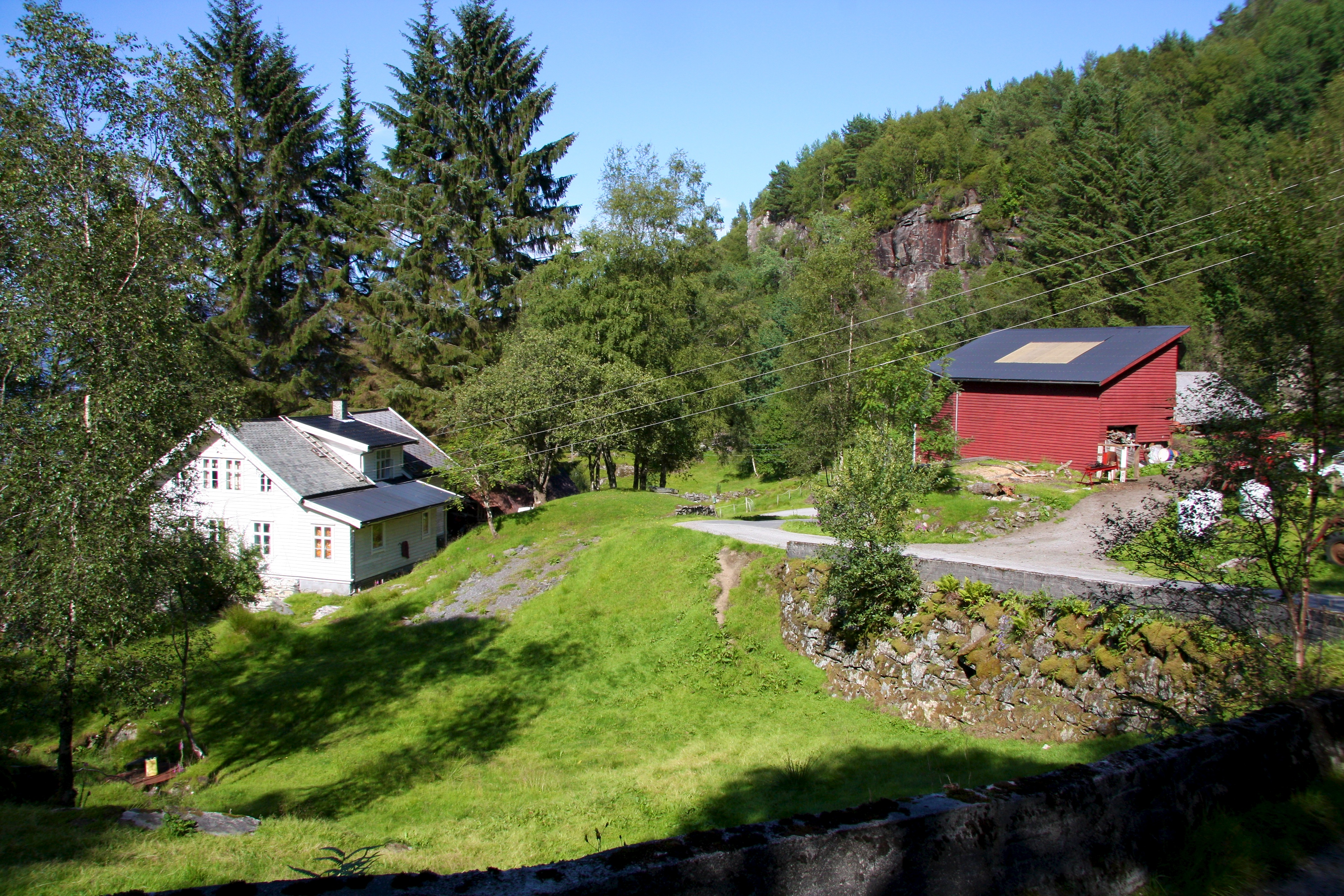 Sygnefest in Gulen municipality, Norway.